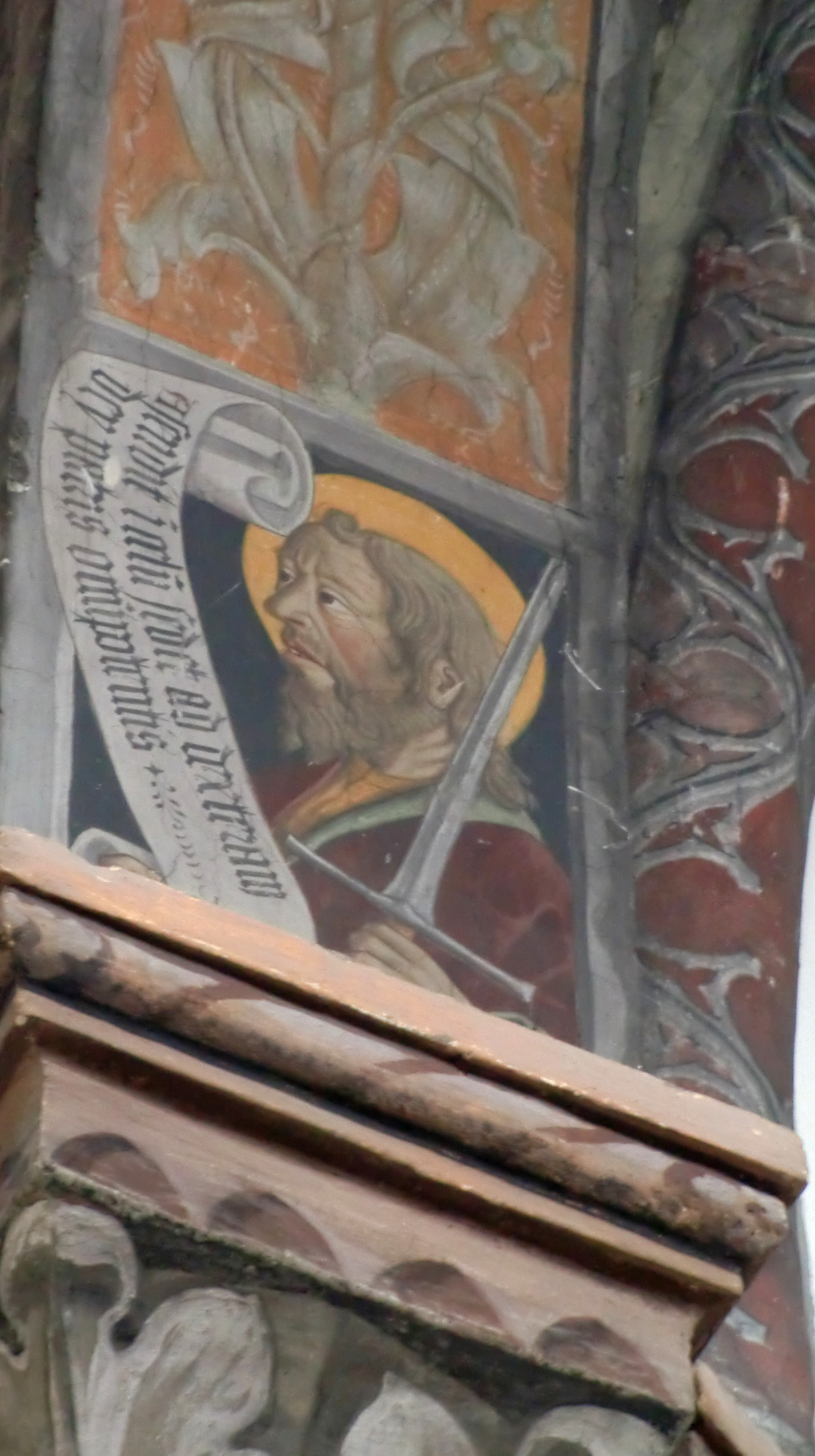 Maestro Colin, decoration of the arches of the church, frescoes, 1499 ca., Aosta, Collegiate church of St. Ursus (Sant'Orso)